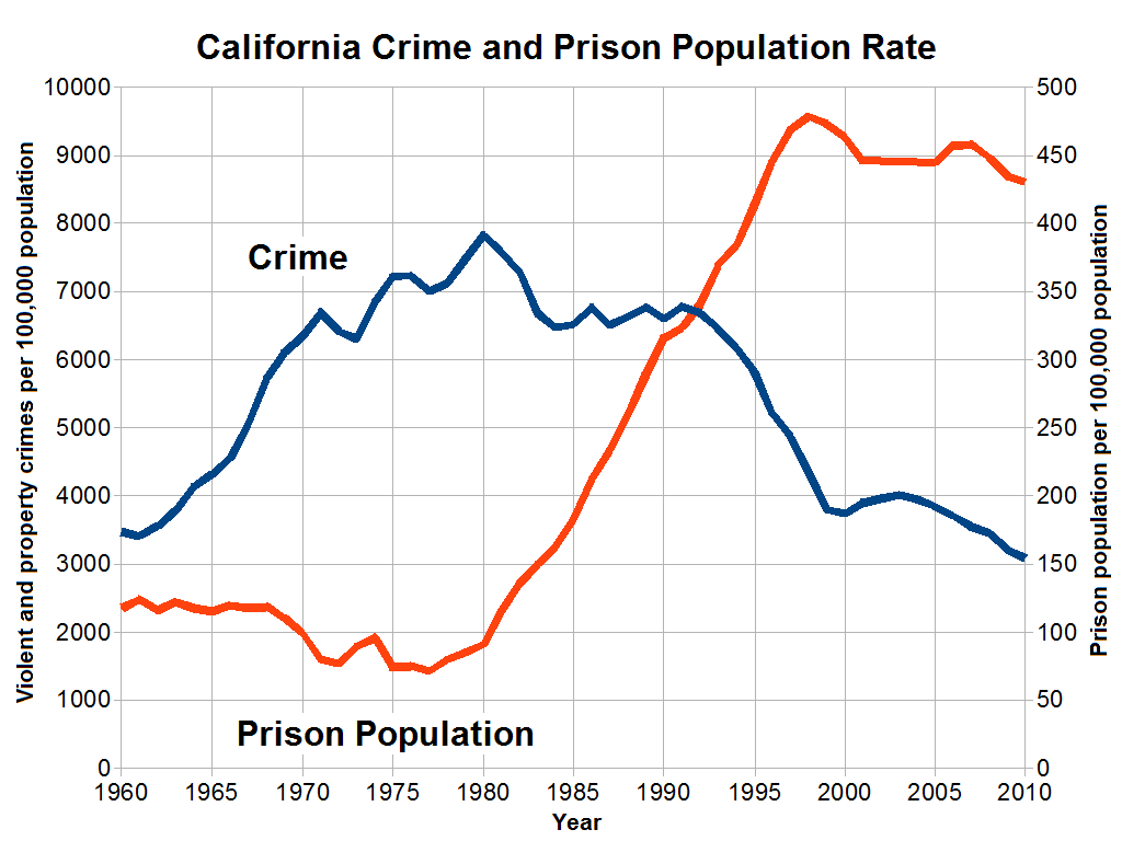 California crime and prison population rate. While there was an increase in crime from 1961 to 1971, all of the increase in prison population from 1978 to 1998 was due to drug convictions.